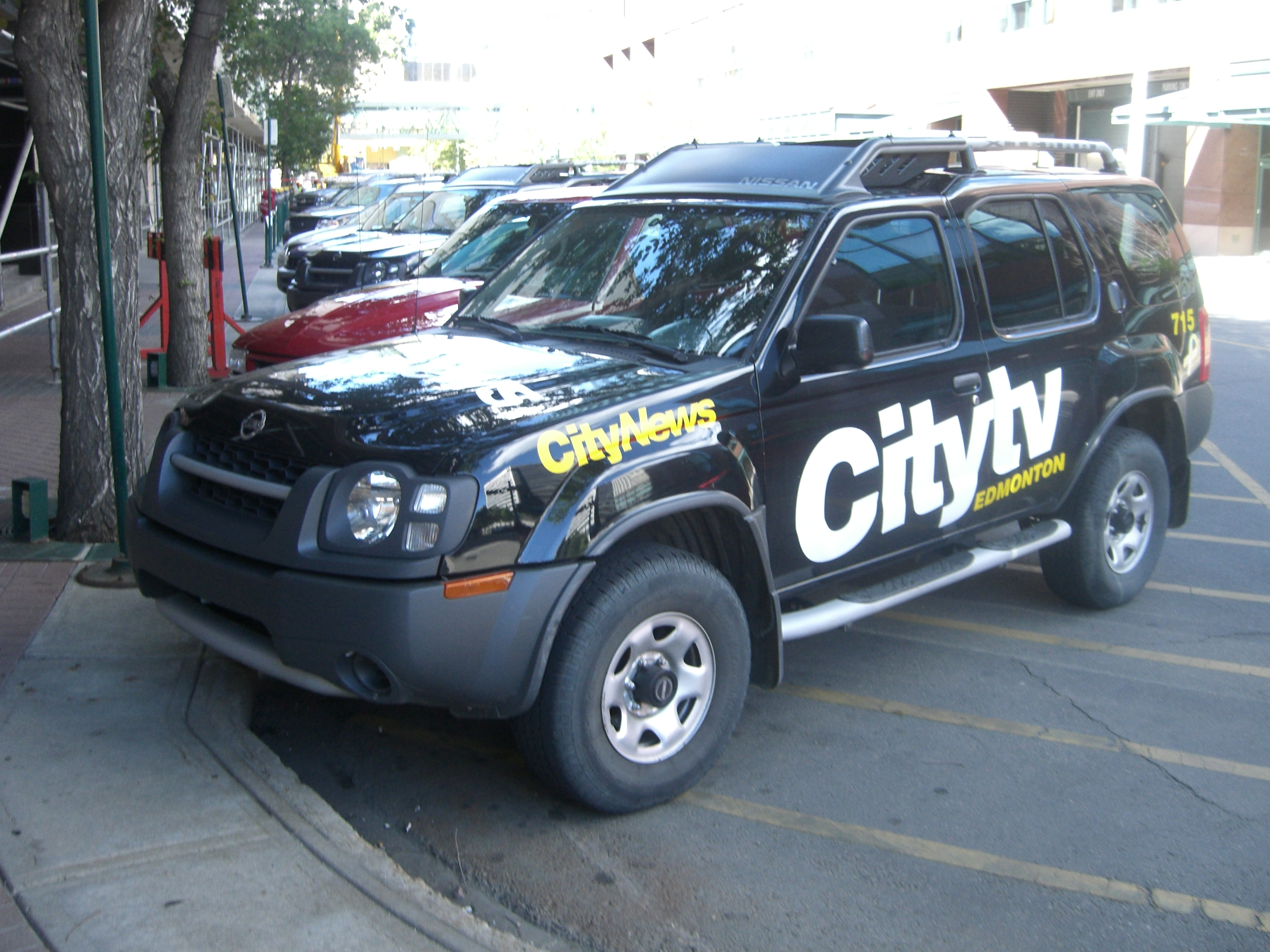 in Edmonton Alberta, outside the Hudsons Bay Building, where citytv has an office.